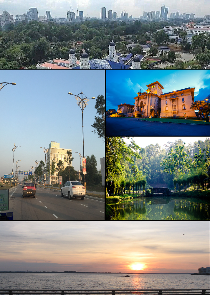 Johor Bahru